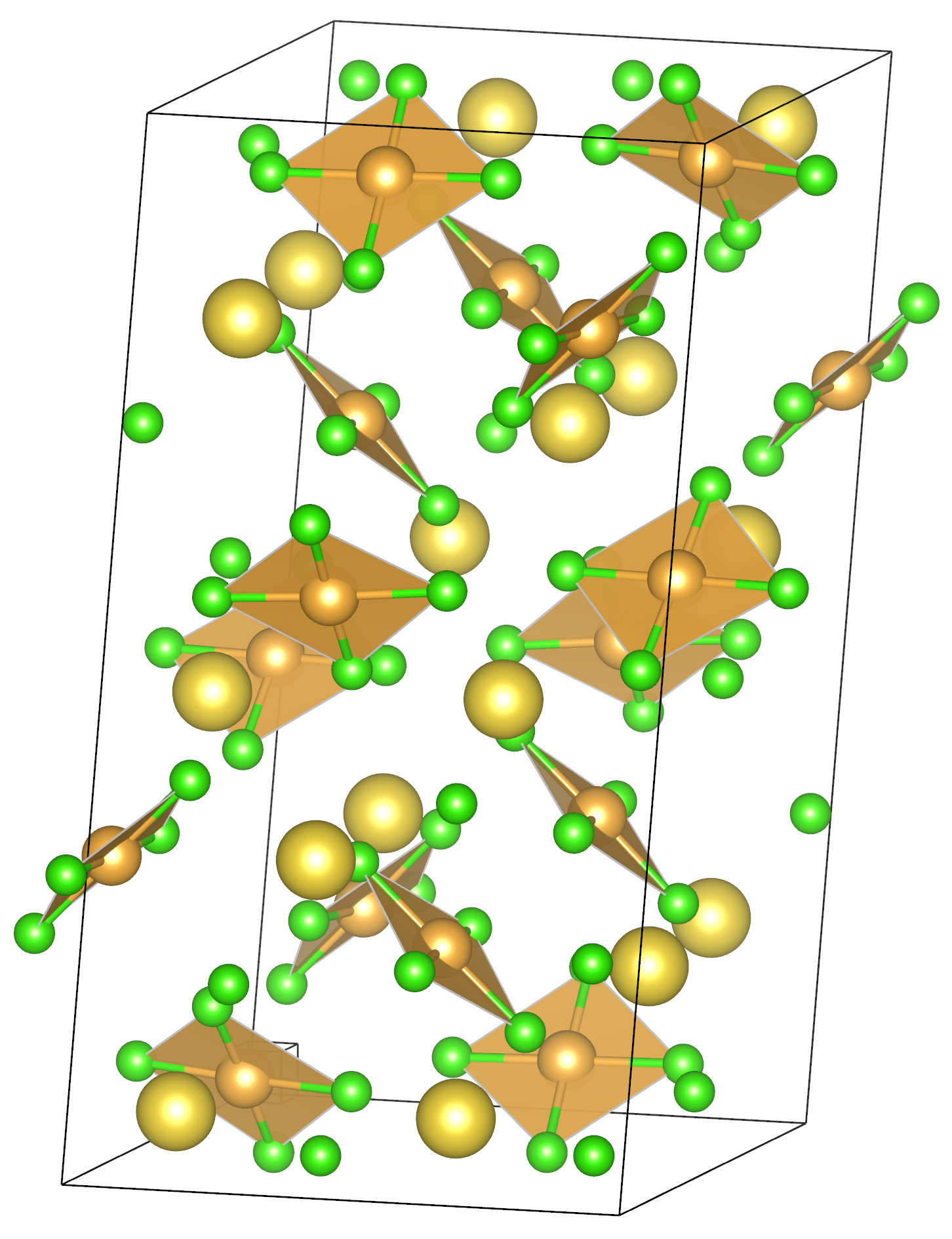 Crystal structure of sodium tetrachloroaurate (NaAuCl4). Created with VESTA. Source of the crystal structure: P. G. Jones, R. Hohbein and E. Schwarzmann. "Anhydrous sodium tetrachloroaurate(III)". Acta Crystallographica: 1164-1166.